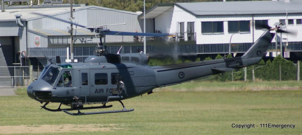 Photos taken at Feilding Armed & Emergency Service Day - Manfield - 20 Feb 2010